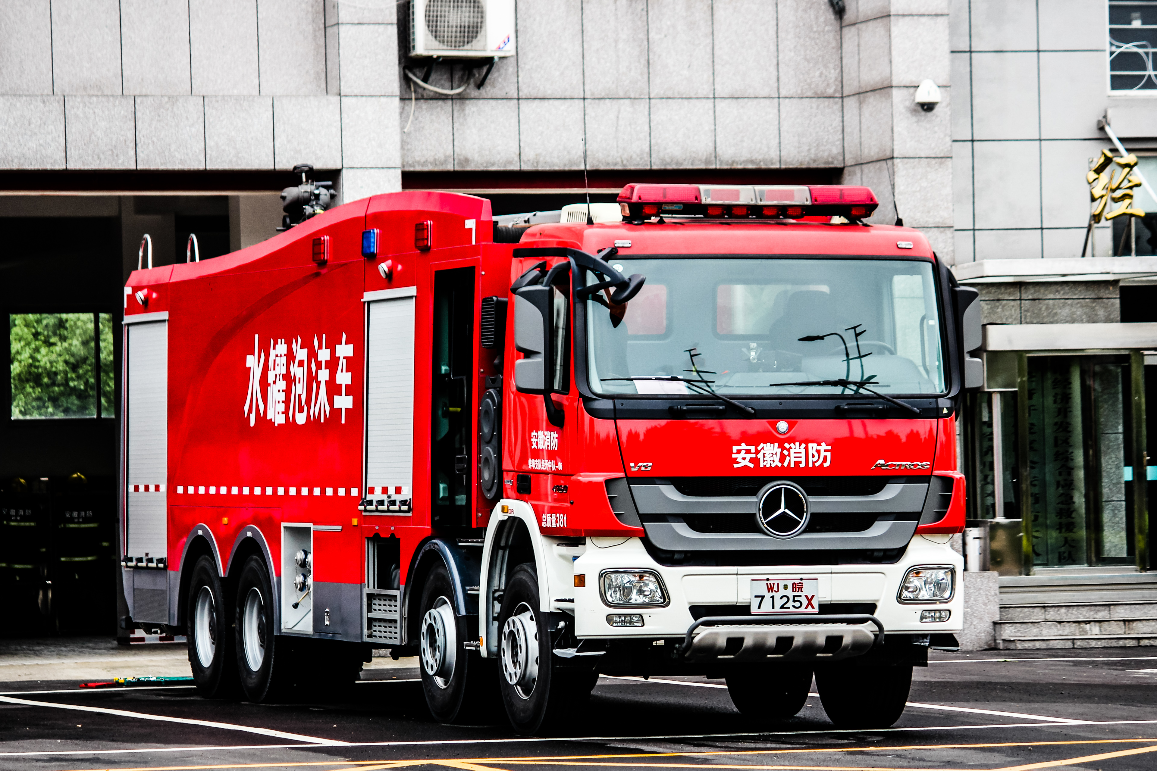 Mercedes-Benz Actros 4141 V8 8*4 Fire Engine @ Bengbu Anhui China